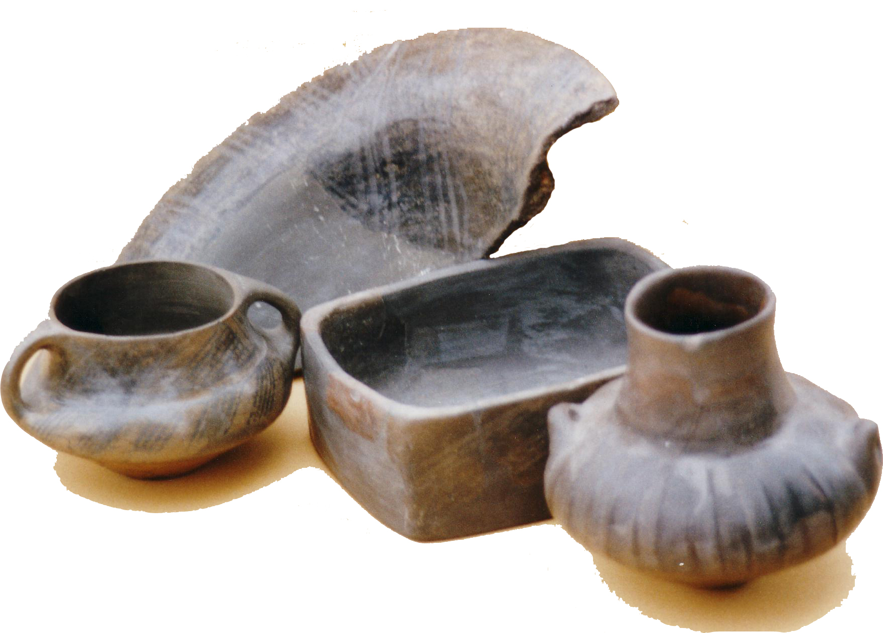 Ceramic plates